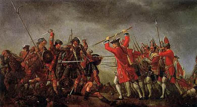 A painting of the Battle of Culloden, between the Jacobites under Charles Edward Stuart and the British forces under the Duke of Cumberland.